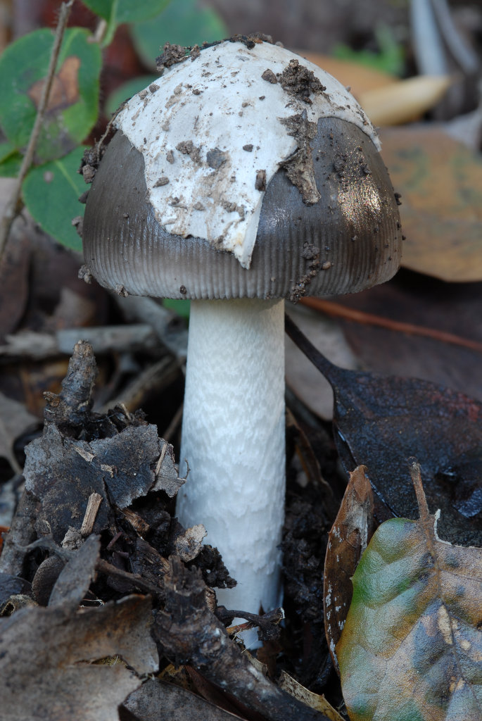 The mushroom Amanita vaginata (Bull.) Lam. Photographed in Novato, Marin Co., California, USA.